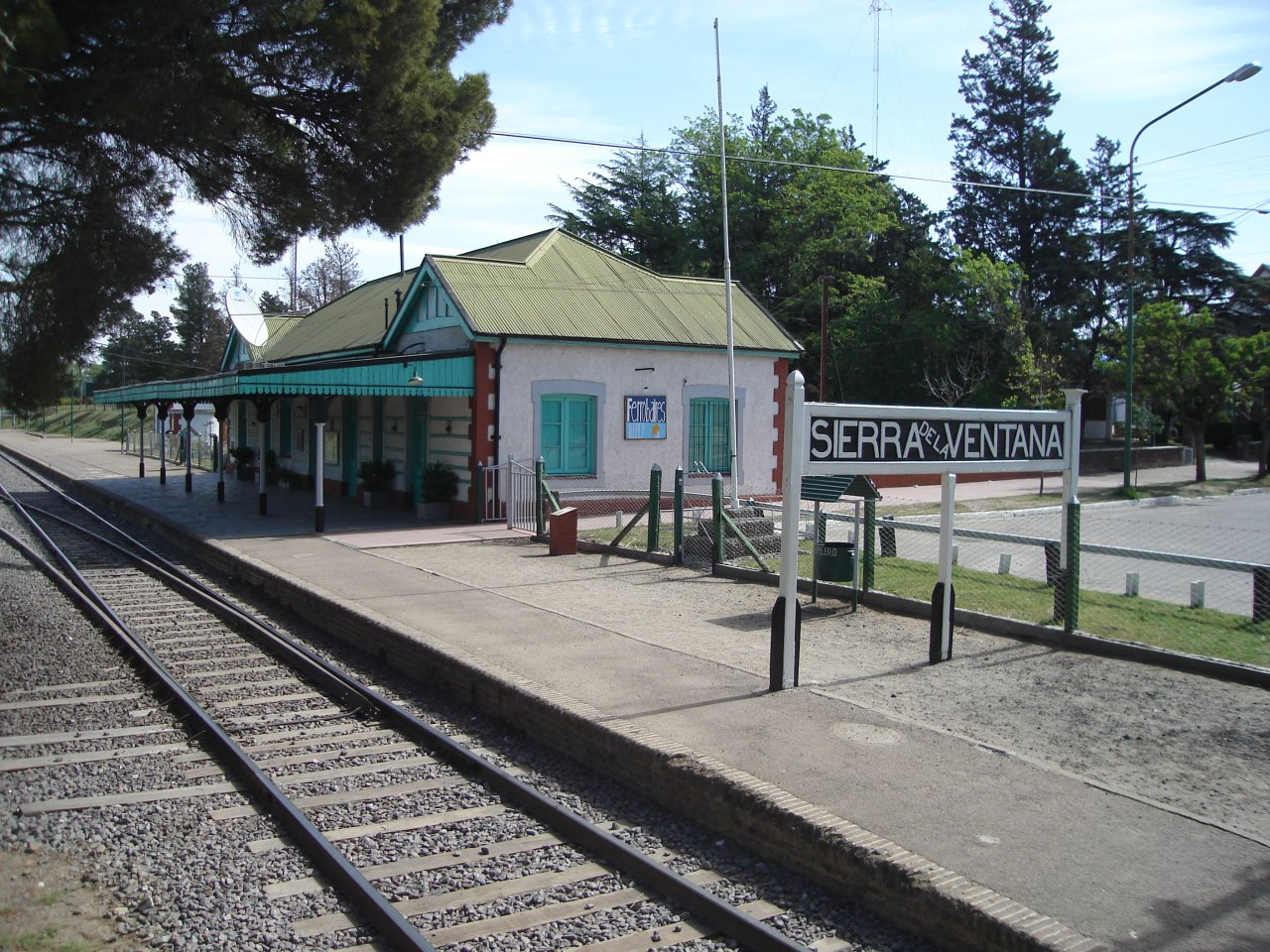 The Sierra de la Ventana railway station.